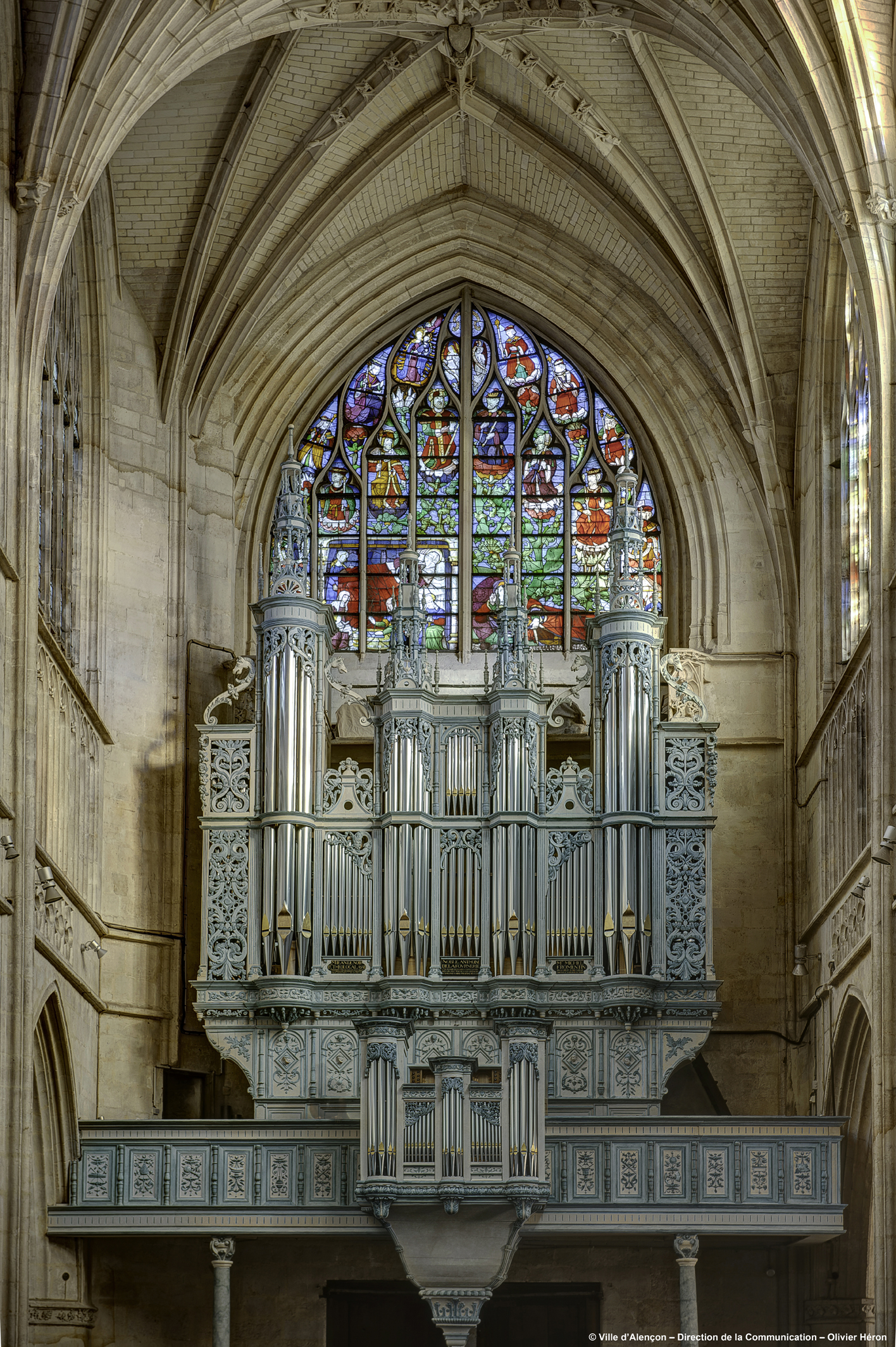 Pipe organ of the basilica of Notre-Dame of Alençon (Orne).